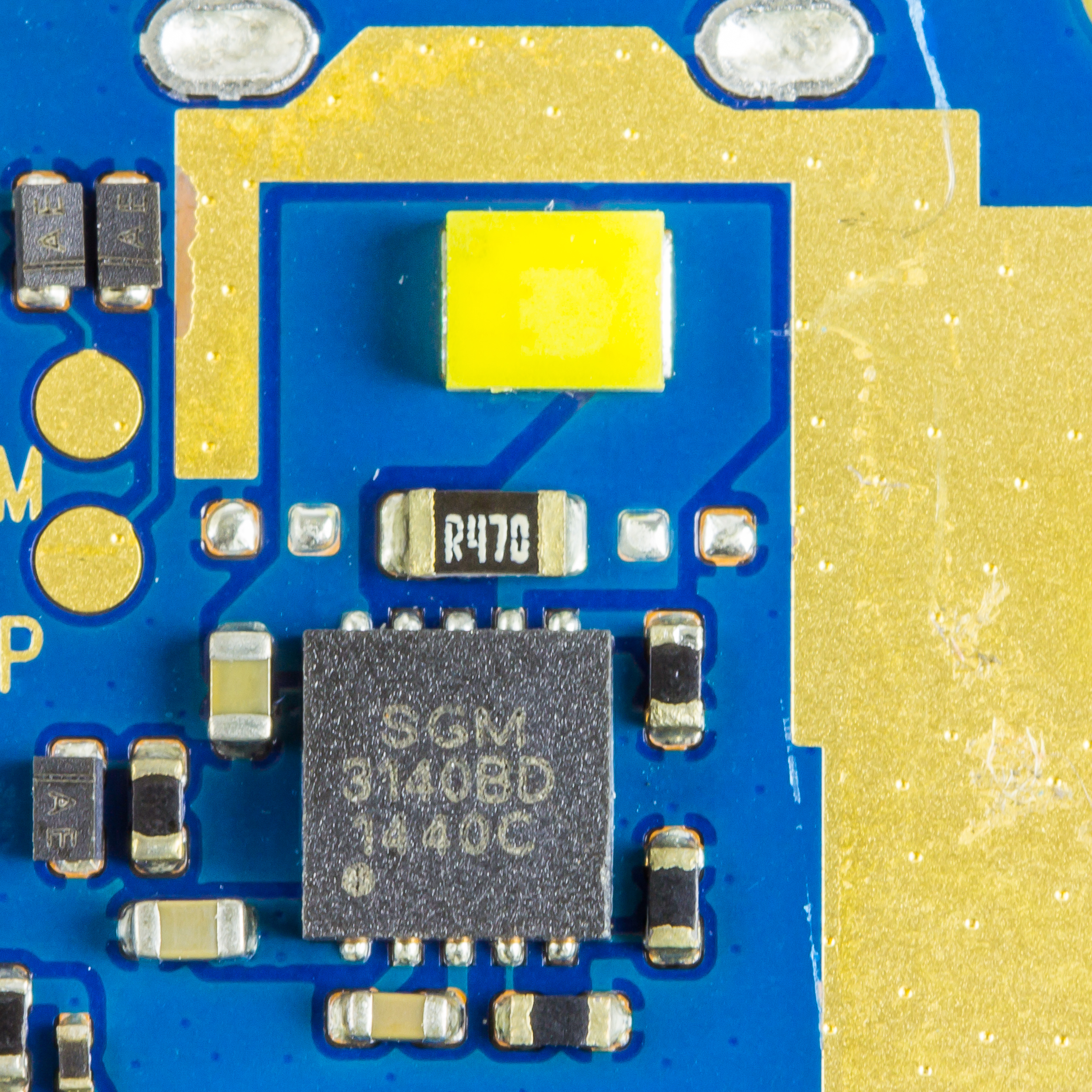 Wiko Rainbow 4G - Flash LED with SG Micro SGM3140 500mA Buck/Boost Charge Pump LED Driver. Package: TDFN-3×3-10L